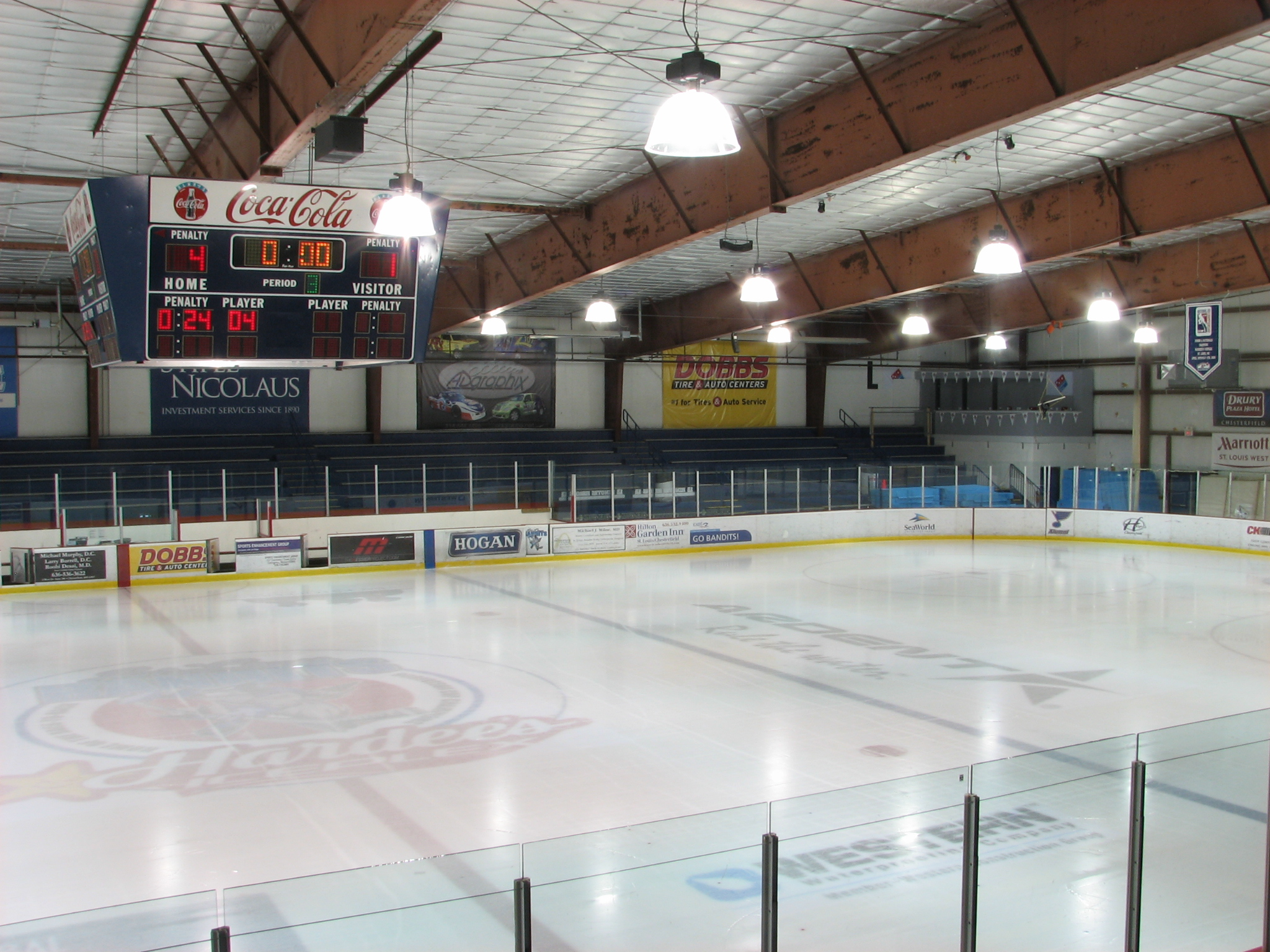 Hardees Iceplex Olympic Arena